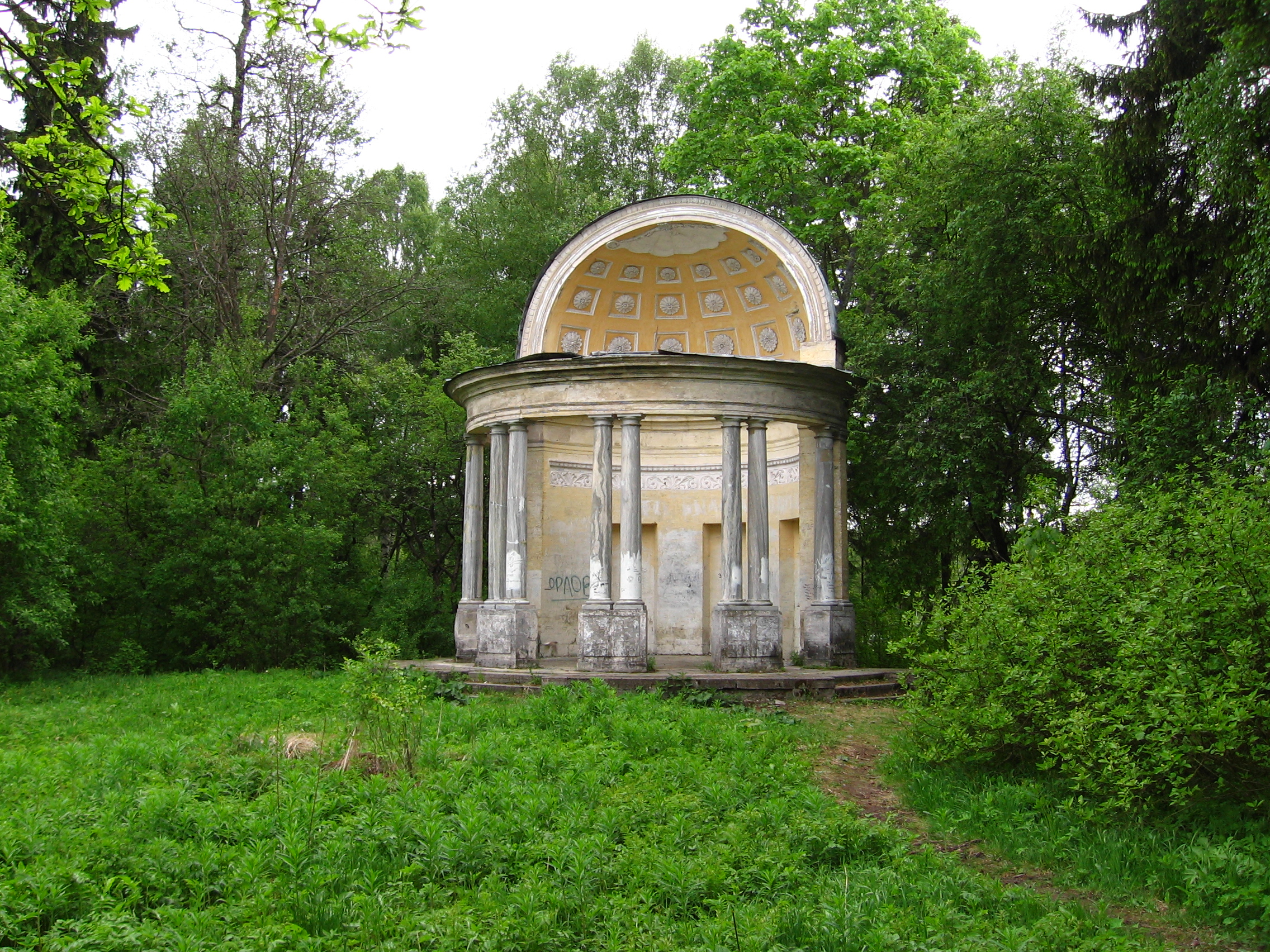 Pavilion_orla in Gatchina